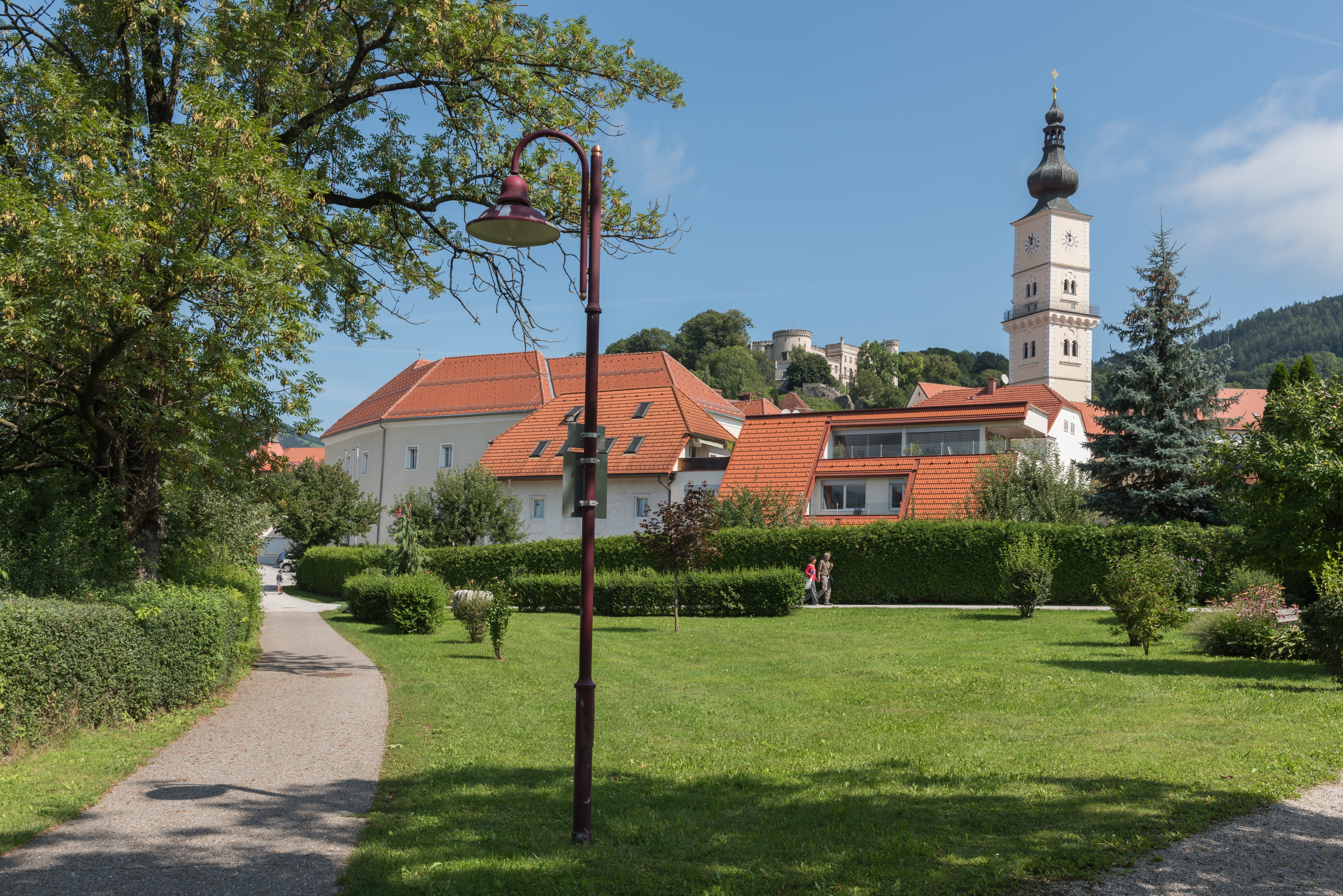 View at the historic center on the river Lavant, municipality Wolfsberg, district Wolfsberg, Carinthia, Austria, EU